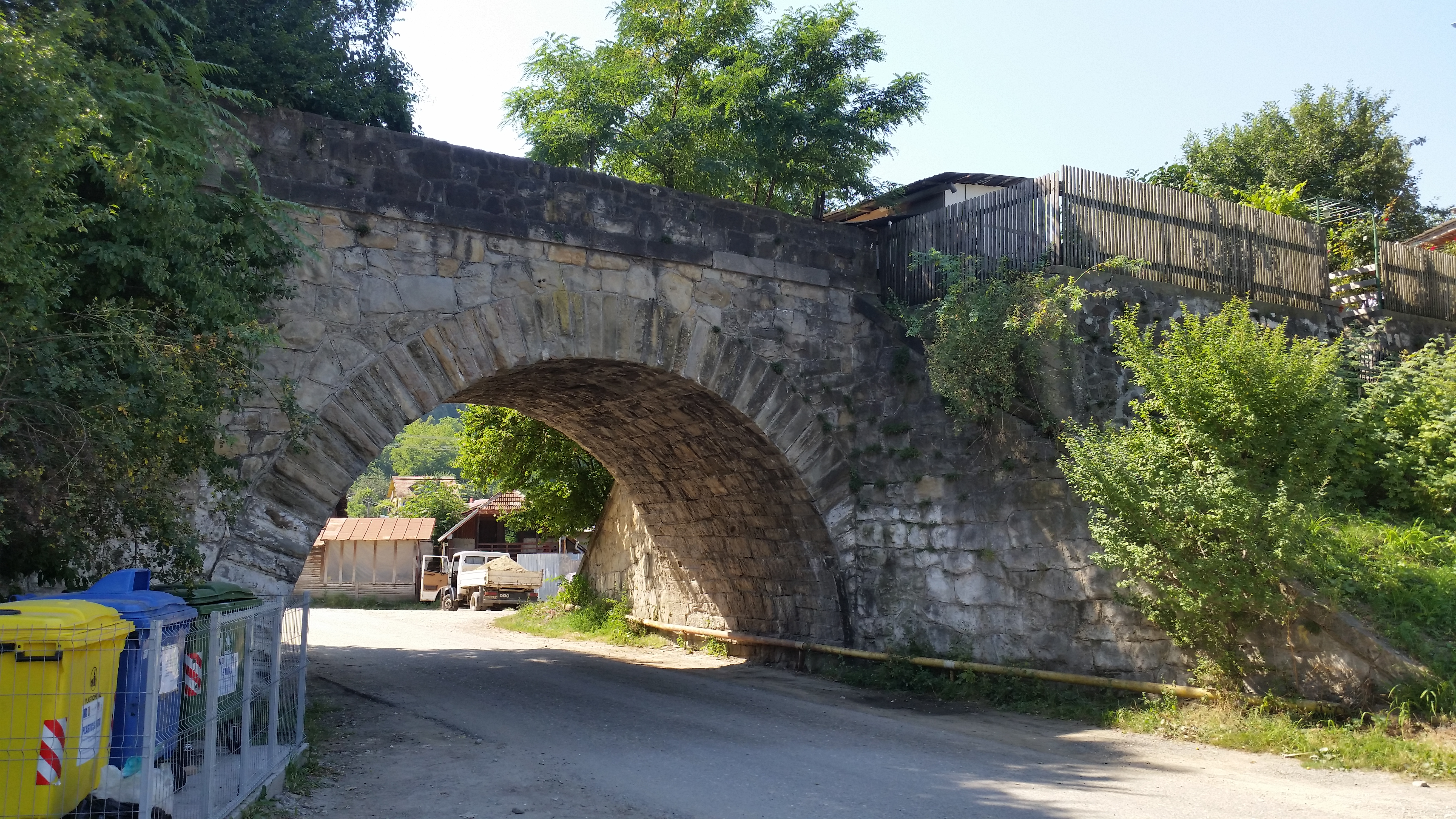 Bridge of the former Câmpina–Câmpinița–Telega railway in Doftana neighborhood of Telega, Romania.